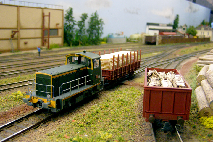 A HO French-style layout made by Rail 86 club from Châtellerault (Vienne, France), seen in Richelieu (Indre-et-Loire, France).